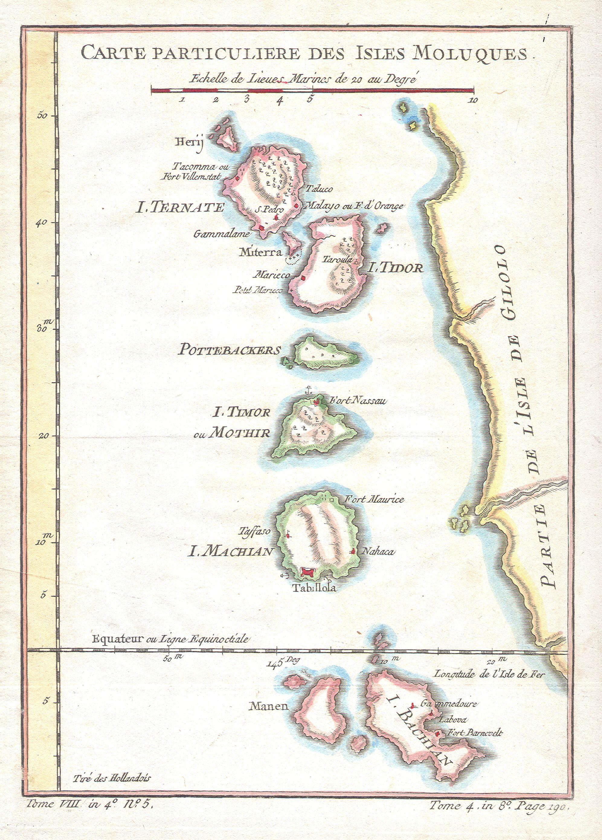 This beautiful hand colored map of the Moluques (also known as the Moluccas, Moluccan Islands or simply Maluku) was produced by the French Cartographer Jacques-Nicolas Bellin in 1760. Depicts the islands of Herij, Ternate, Tidor, Pottebackers, Timor, Machian and Bachian. The Moluccan islands were once part of the Dutch East Indies. Today the Moluccas are part of Indonesia.